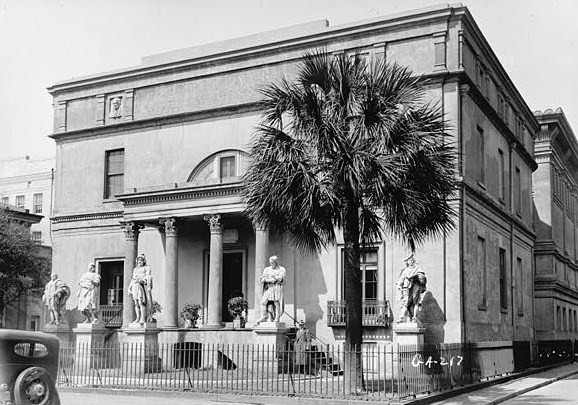 Telfair Academy of Arts & Sciences (Savannah, Georgia) (cropped)